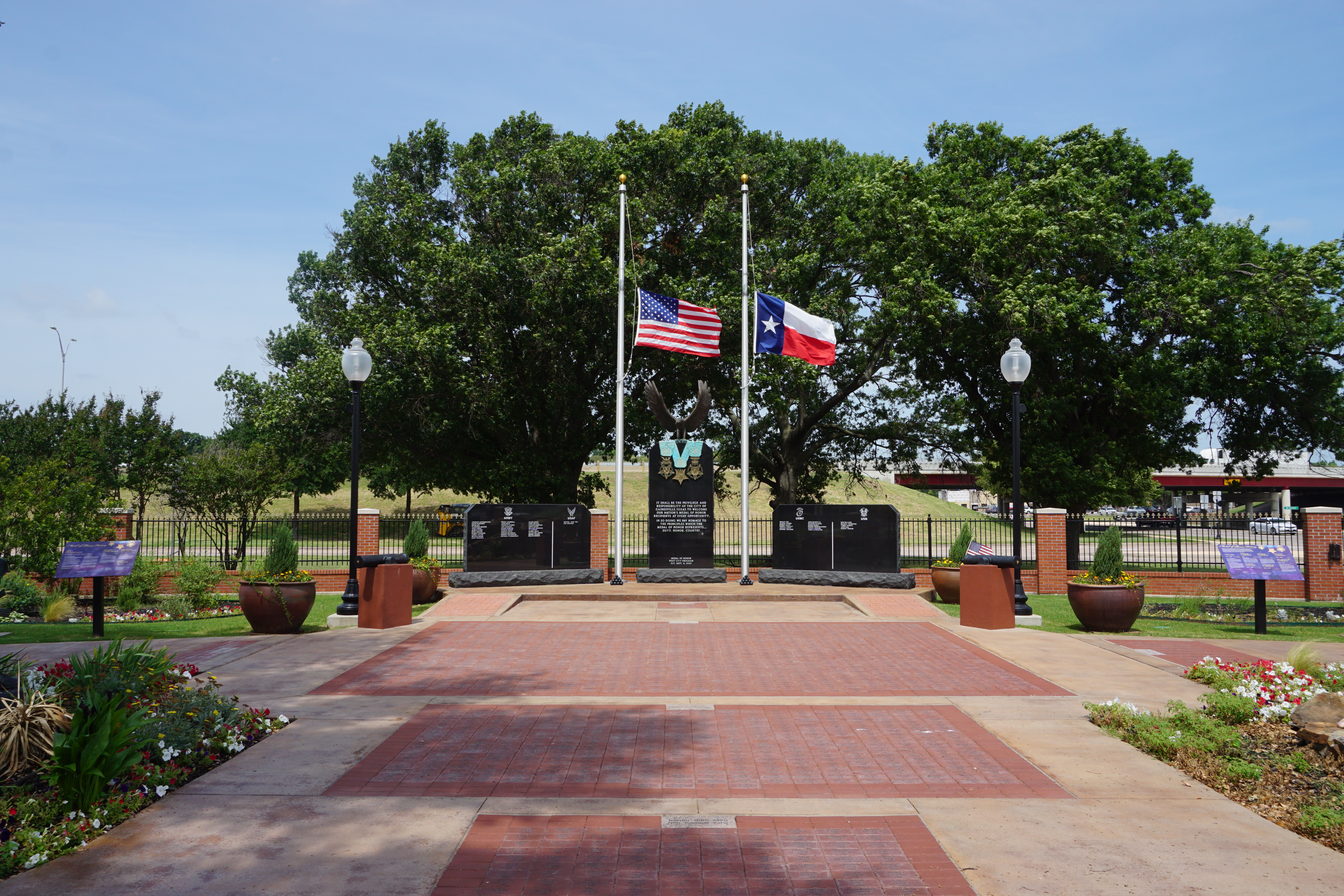 Medal of Honor Park in Gainesville, Texas (United States).